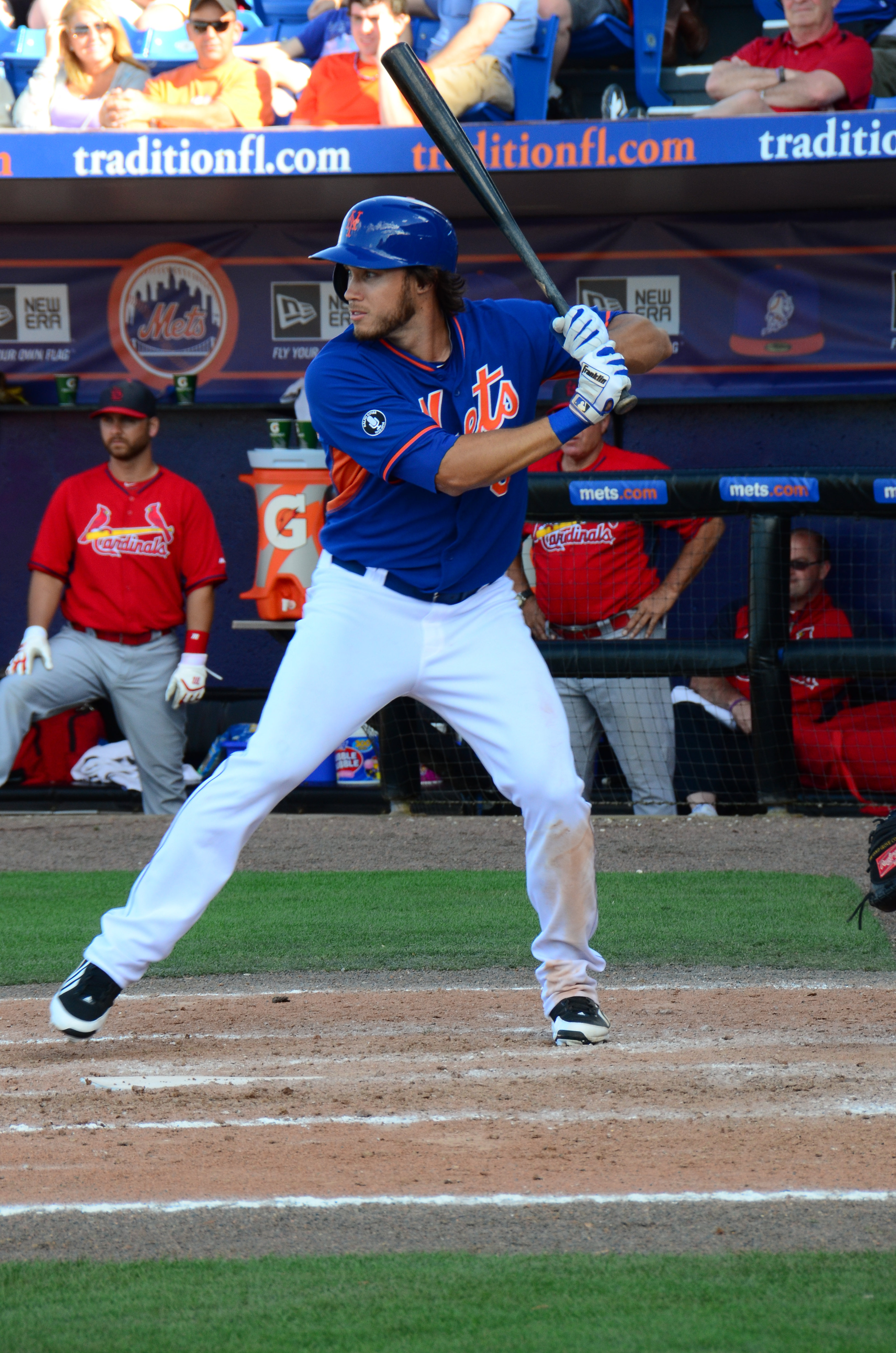 Matt den Dekker - March 7, 2014, Tradition Field, Florida